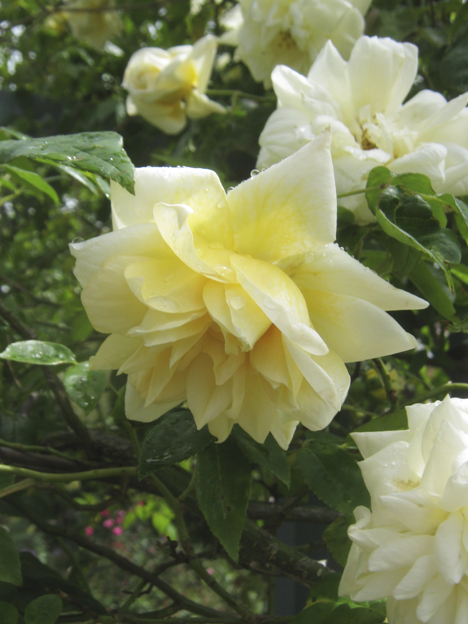 Rose 'Golden Vision', Hybrid Gigantea by Alister Clark 1922; Photographed in the Alister Clark Memorial Rose Garden, Bulla, Victoria